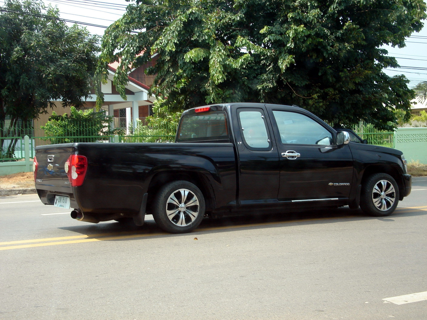 Chevrolet Colorado (Thai version) (custom) - Mahasarakham, Thailand